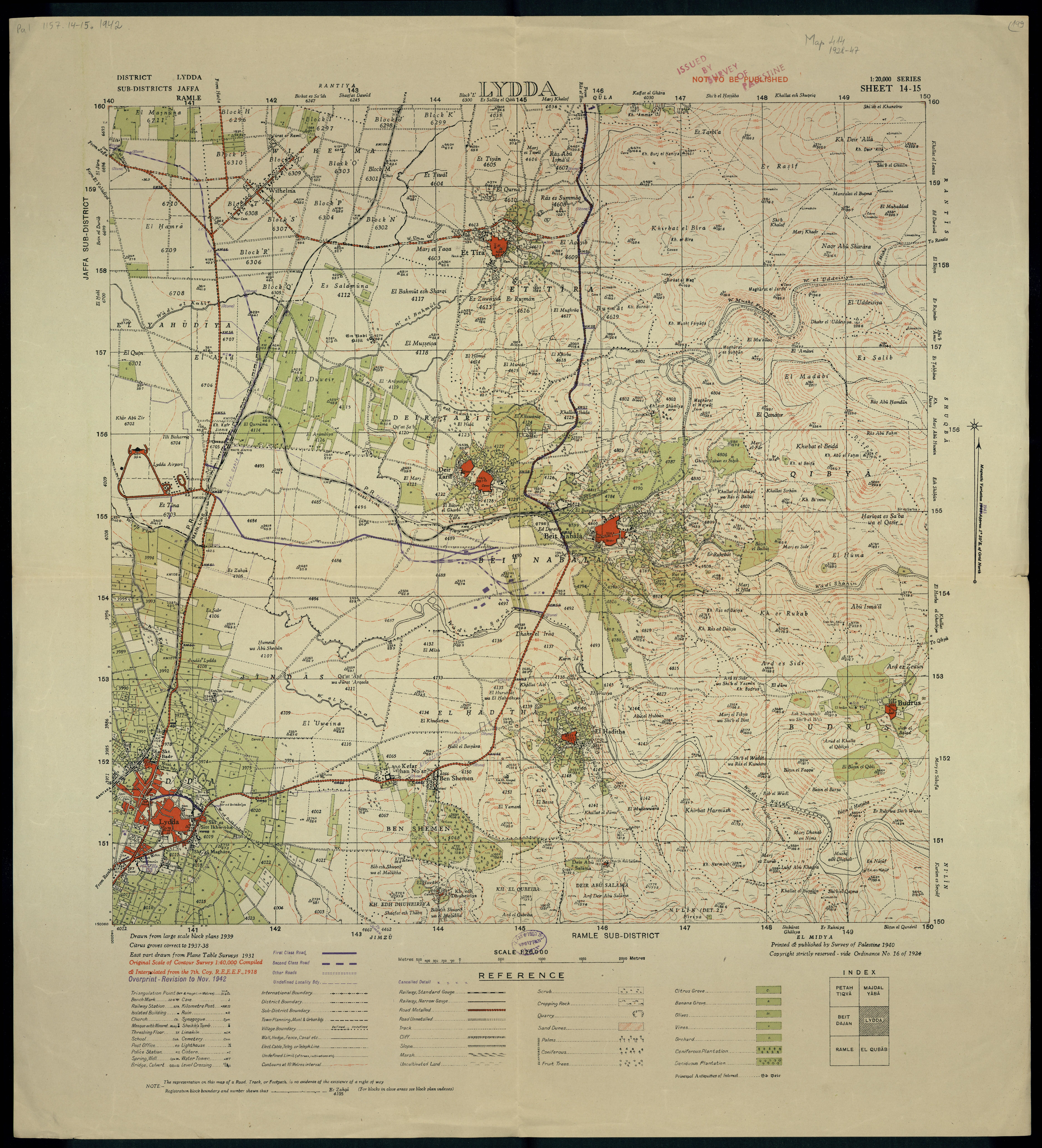 Survey of Palestine maps